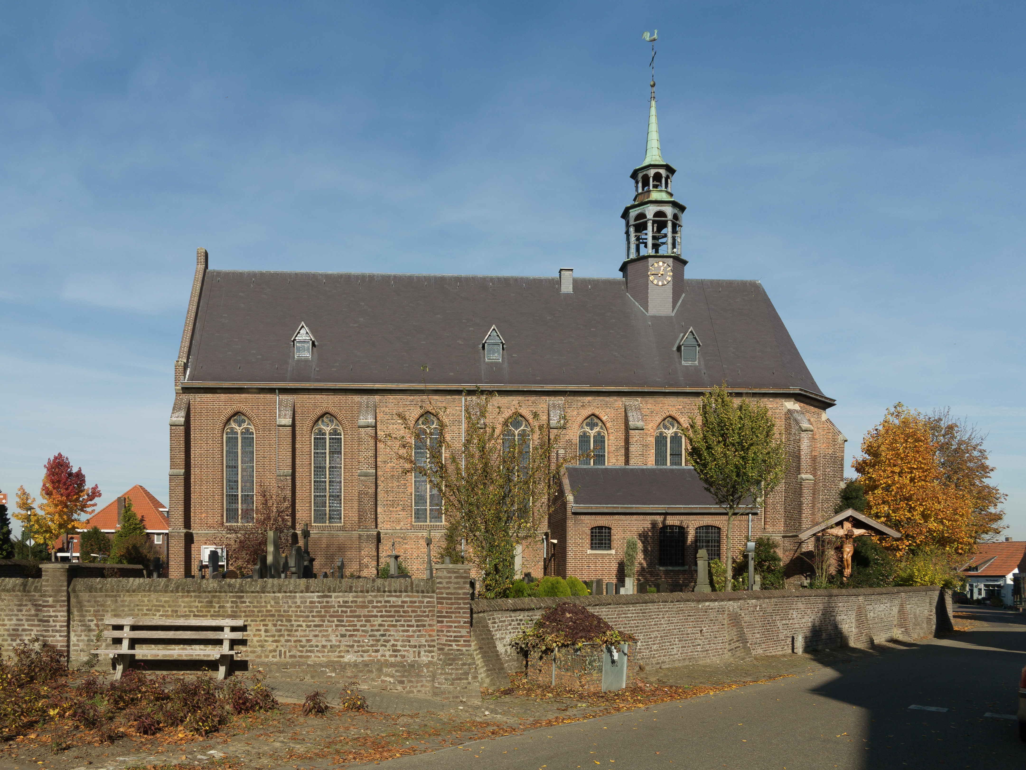 Broekhuizen, church: de Sint Nicolaaskerk